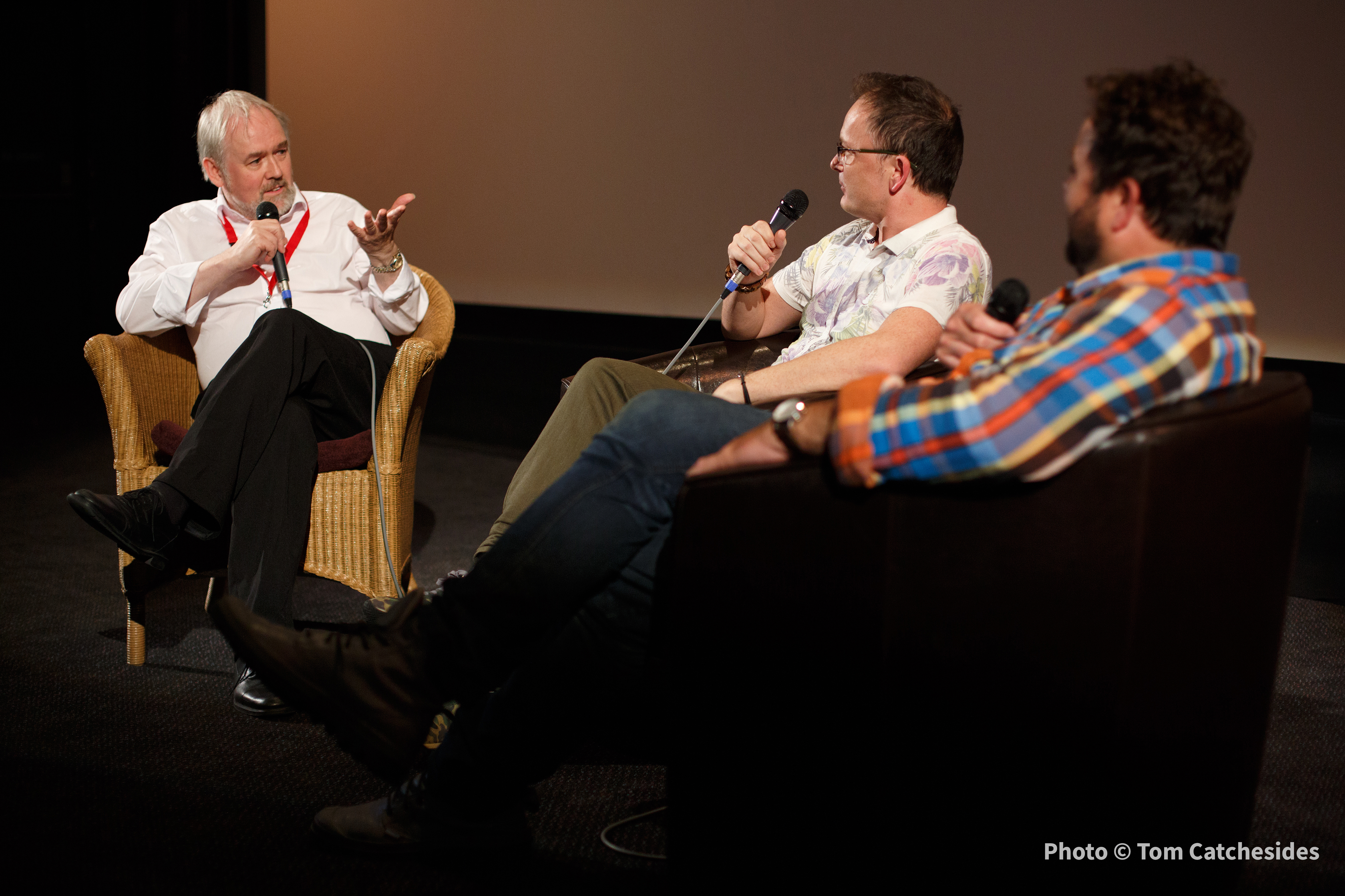 Bill Lawrence hosting a Q&A at Cambridge Film Festival 2014